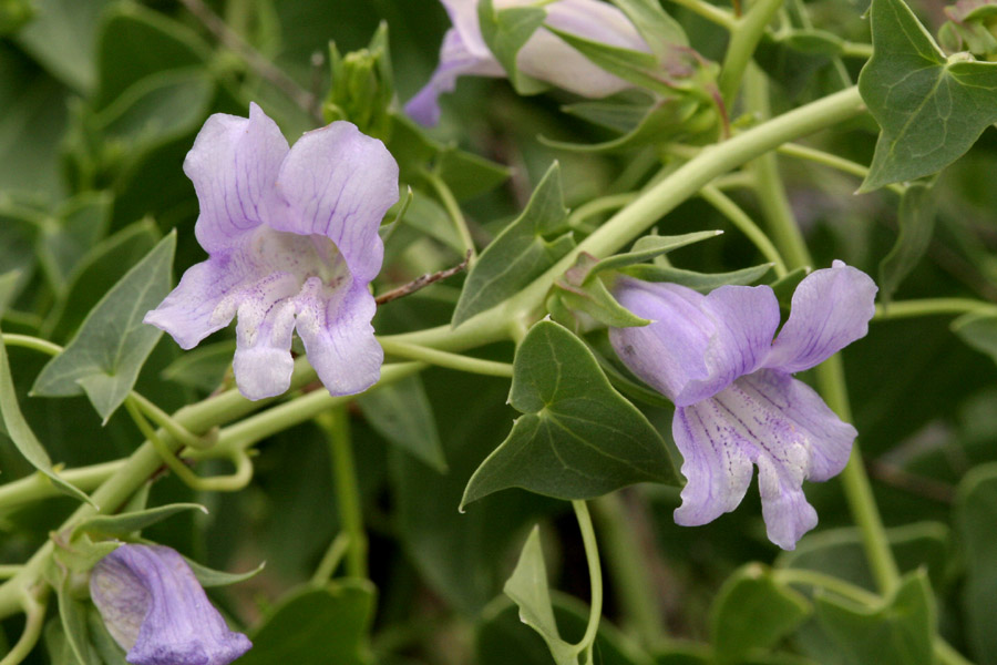 Maurandya wislizeni, Mesilla Bosque